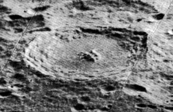 Oblique view of Kovalevskaya, on the far side of the moon, facing southwest.